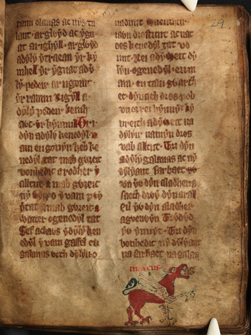 A Welsh text of the Laws of Hywel Dda, including a number of illustrations. The manuscript contains 115 folios made from parchment, and the wooden cover dates from the Middle Ages.